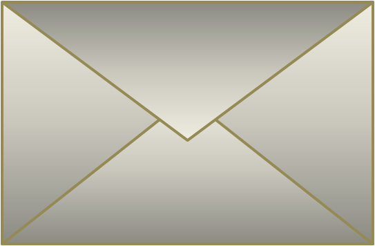 A drawing of an envelope